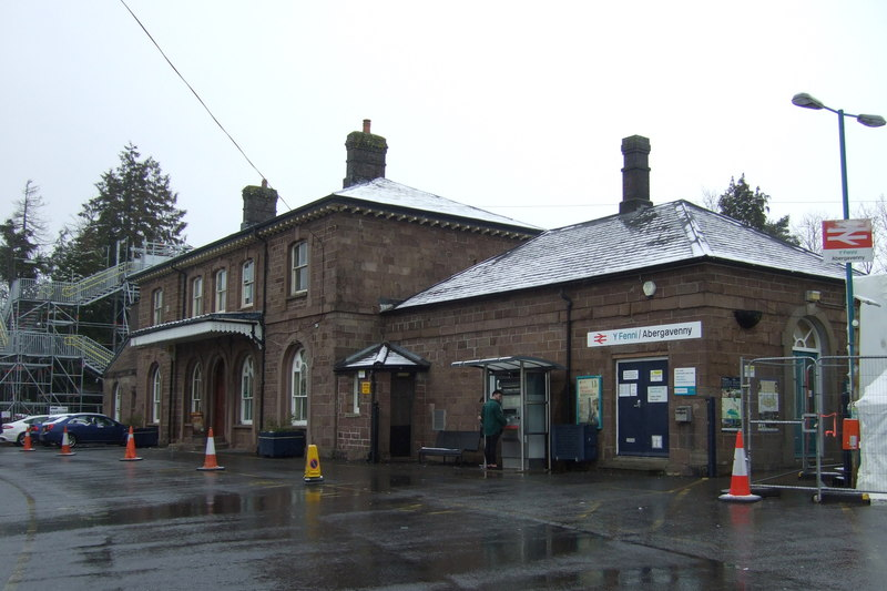 Abergavenny Railway Station